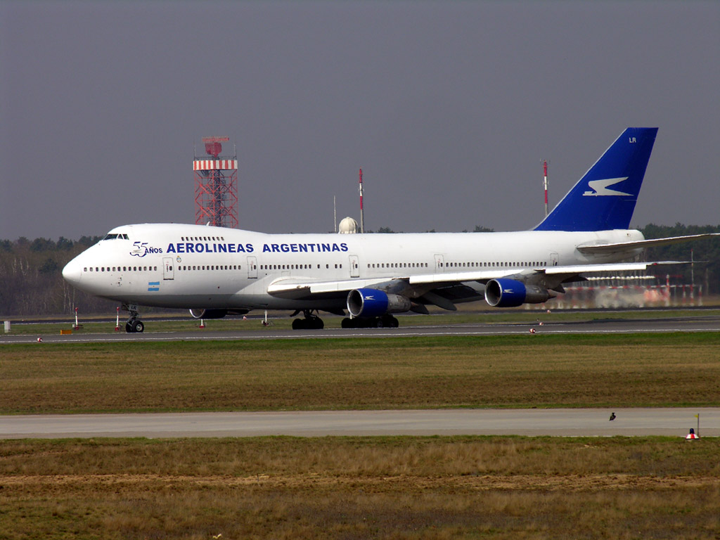 Boeing 747-200 LV-MLR leaves Berlin TXL after a state visit in 2005